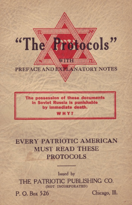 The Protocols of the Elders of Zion. A 1934 imprint by the so-called "Patriotic Publishing Co." The cover gives address as "P.O. Box 526; Chicago, Ill." The entity is further described as "UNINCORPORATED." In 1934 Nazis were operating in the USA and the 299-page text and its cover might be one of its propaganda products. The author & publisher do not exist This is an un-copyrighted item that was published by an un-incorporated entity, The Patriotic Publishing Co., which went out of existence.